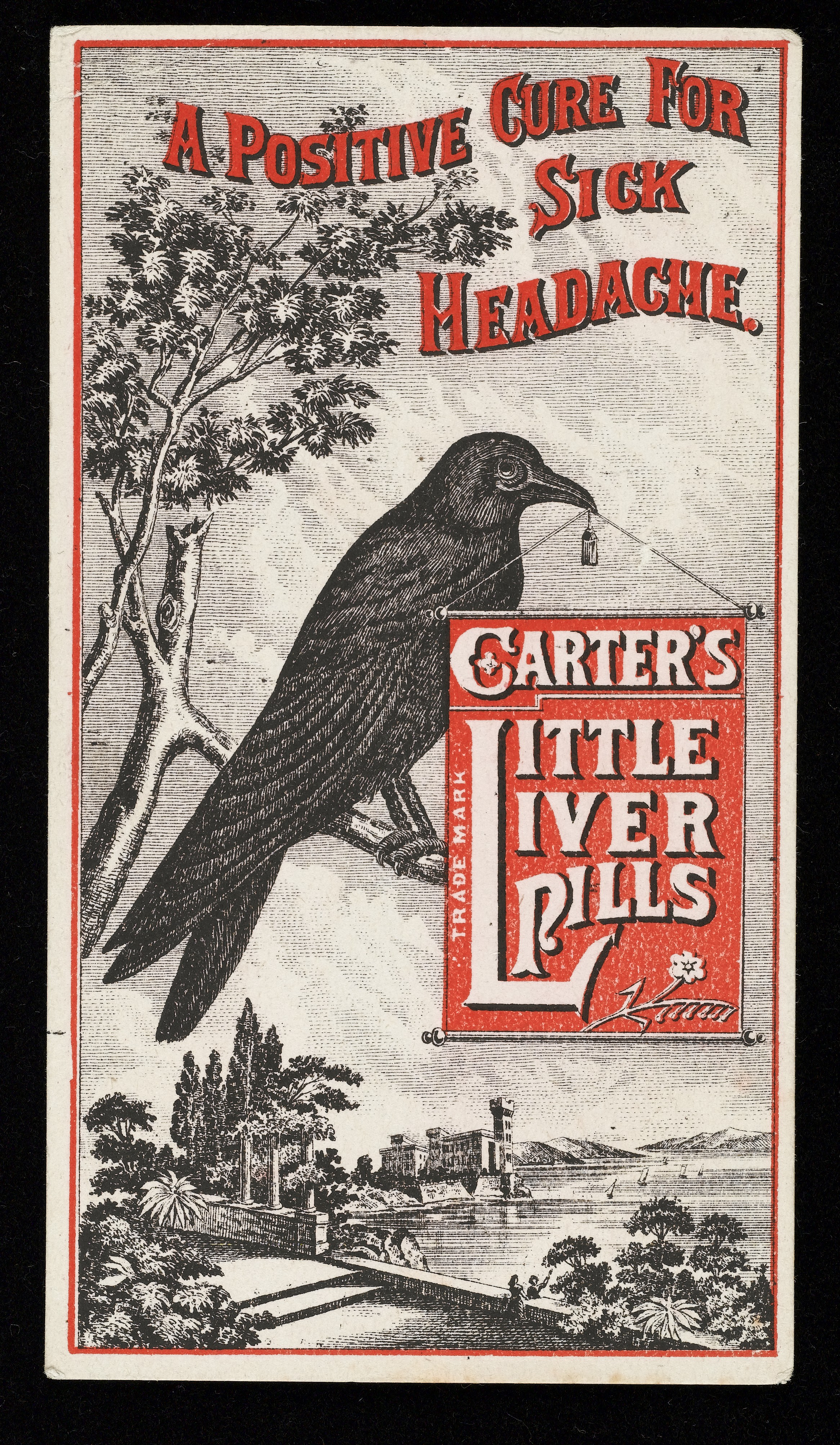 Advert for Carter's Little Liver Pills: A Positive Cure for Sick Headaches. Small card advertising Carter's Little Liver Pills, printed in black and red on white card. The front shows a black bird sitting on a branch of a tree with a red banner in its beak, the product's name in white letters. Beneath the bird is a lake scene with a castle, trees and mountains in the distance. The reverse explains that the pills cure "headache, biliousness, constipation, etc." and are "strictly vegetable". General Collections Keywords: Constipation; Dyspepsia; Advertisement; Headaches; Carter's Little Liver Pills.; Headache